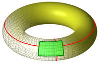 Topological proof of the Jordan curve theorem (2).